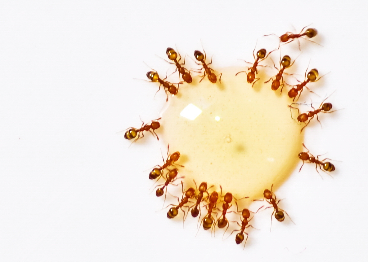 Ant and honey.